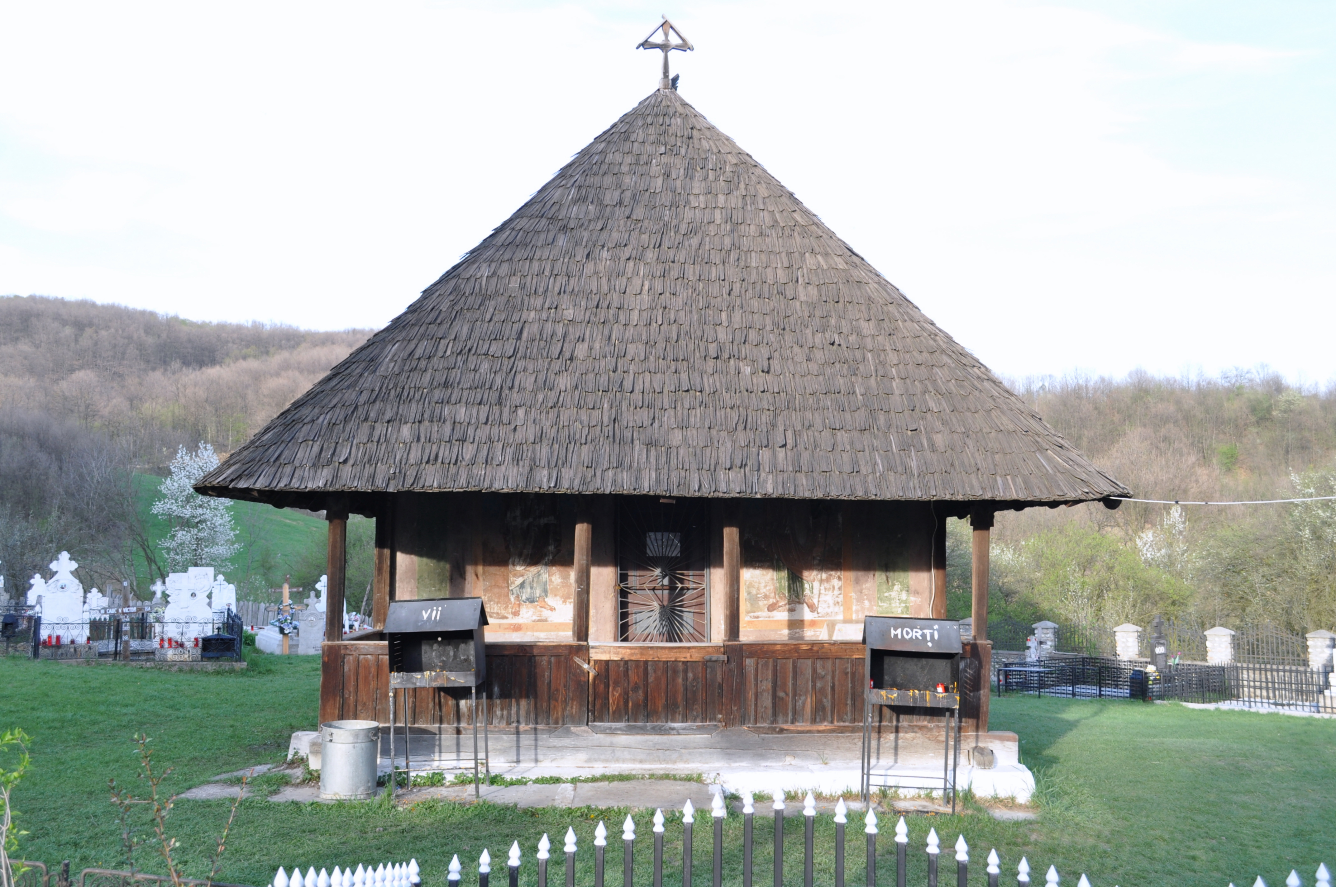 Wooden church in Artanu, Gorj county, Romania